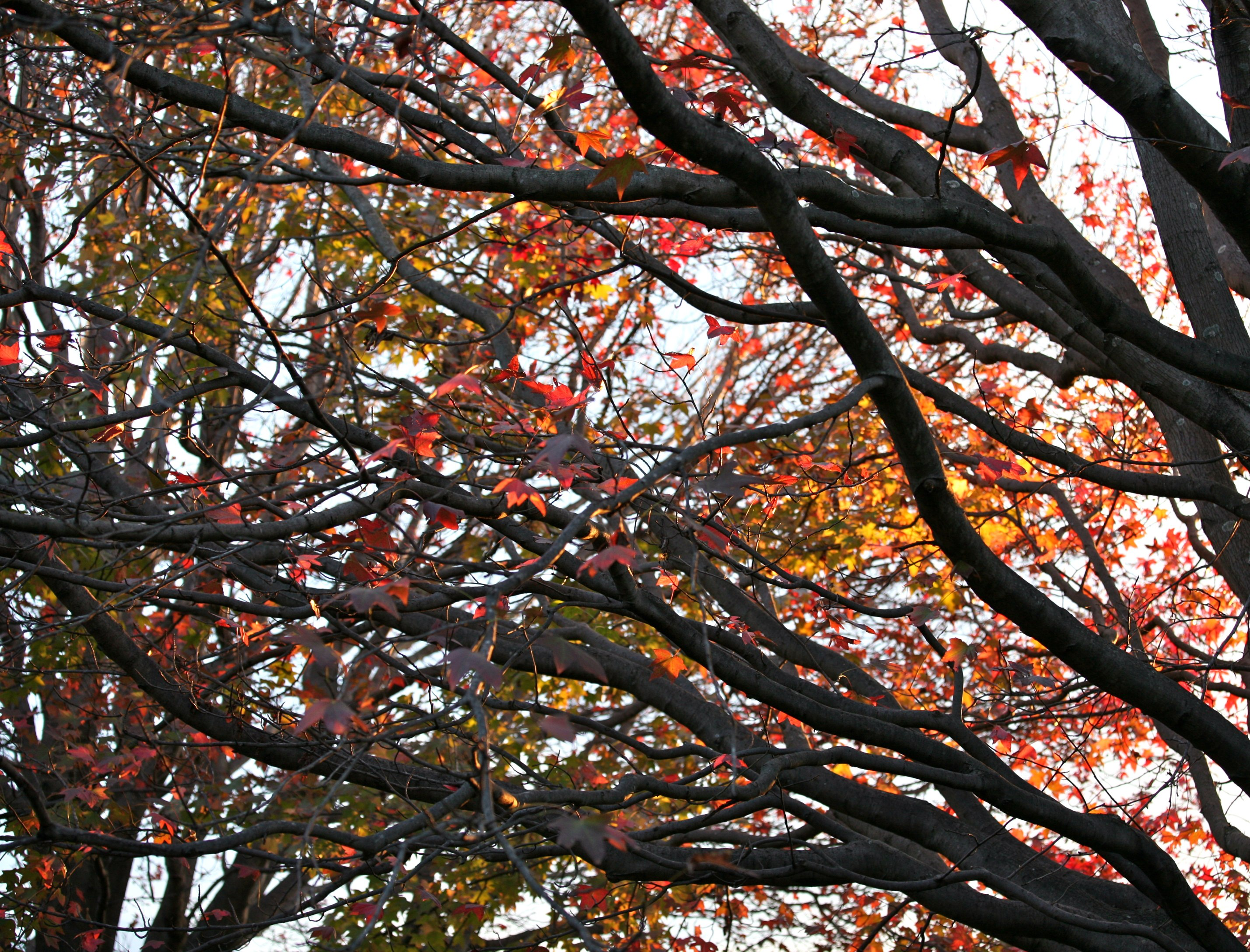 You need to view on a black background View On Black